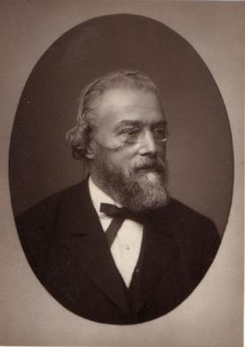 Derk Doyer (1827-1896), Leiden medical professor. Photograph by Goupil